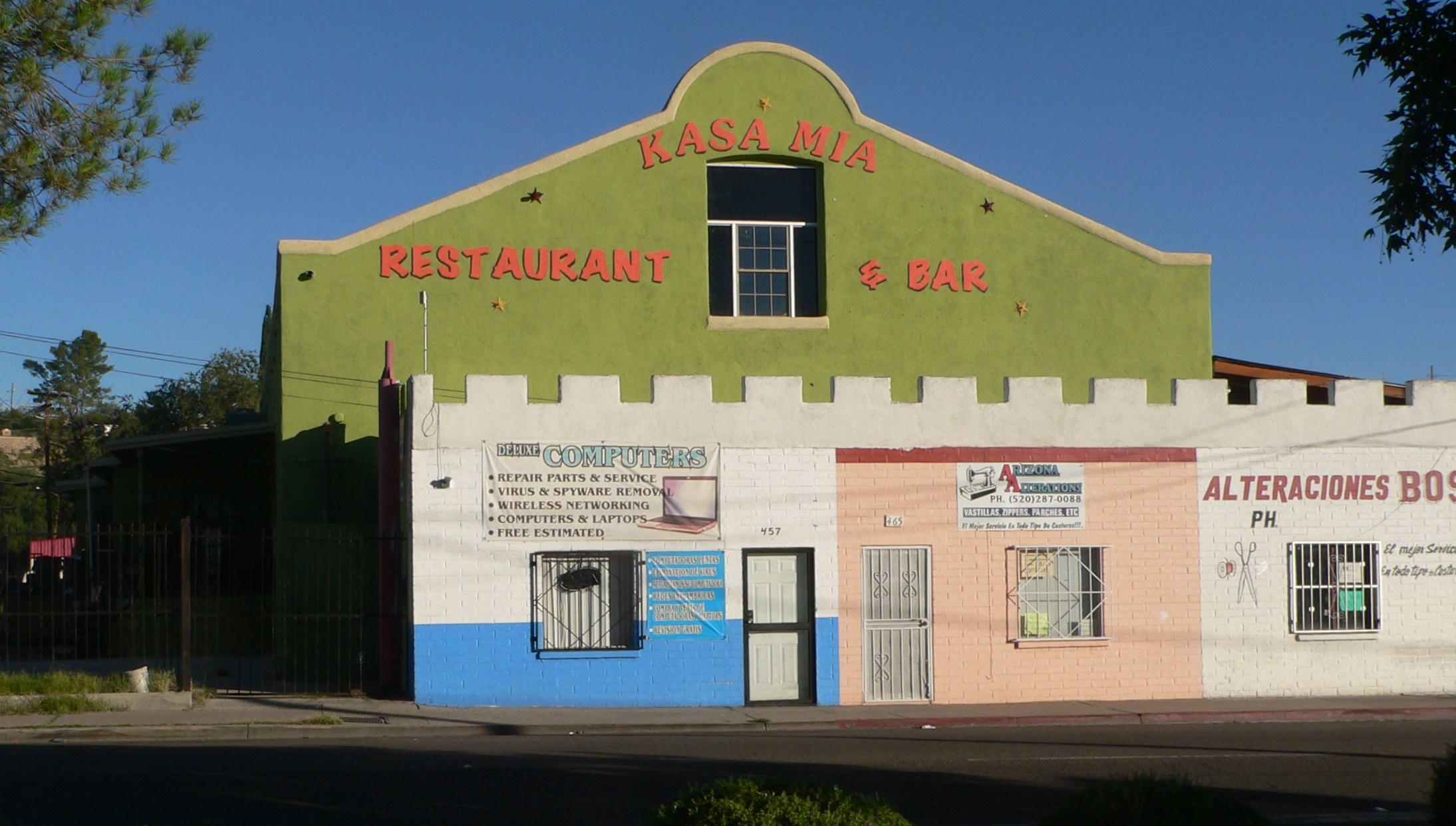 Kasa Mia restaurant and bar, located at 460 N. Arroyo Boulevard in Nogales, Arizona. Camera is facing northwest, across Grand Avenue.